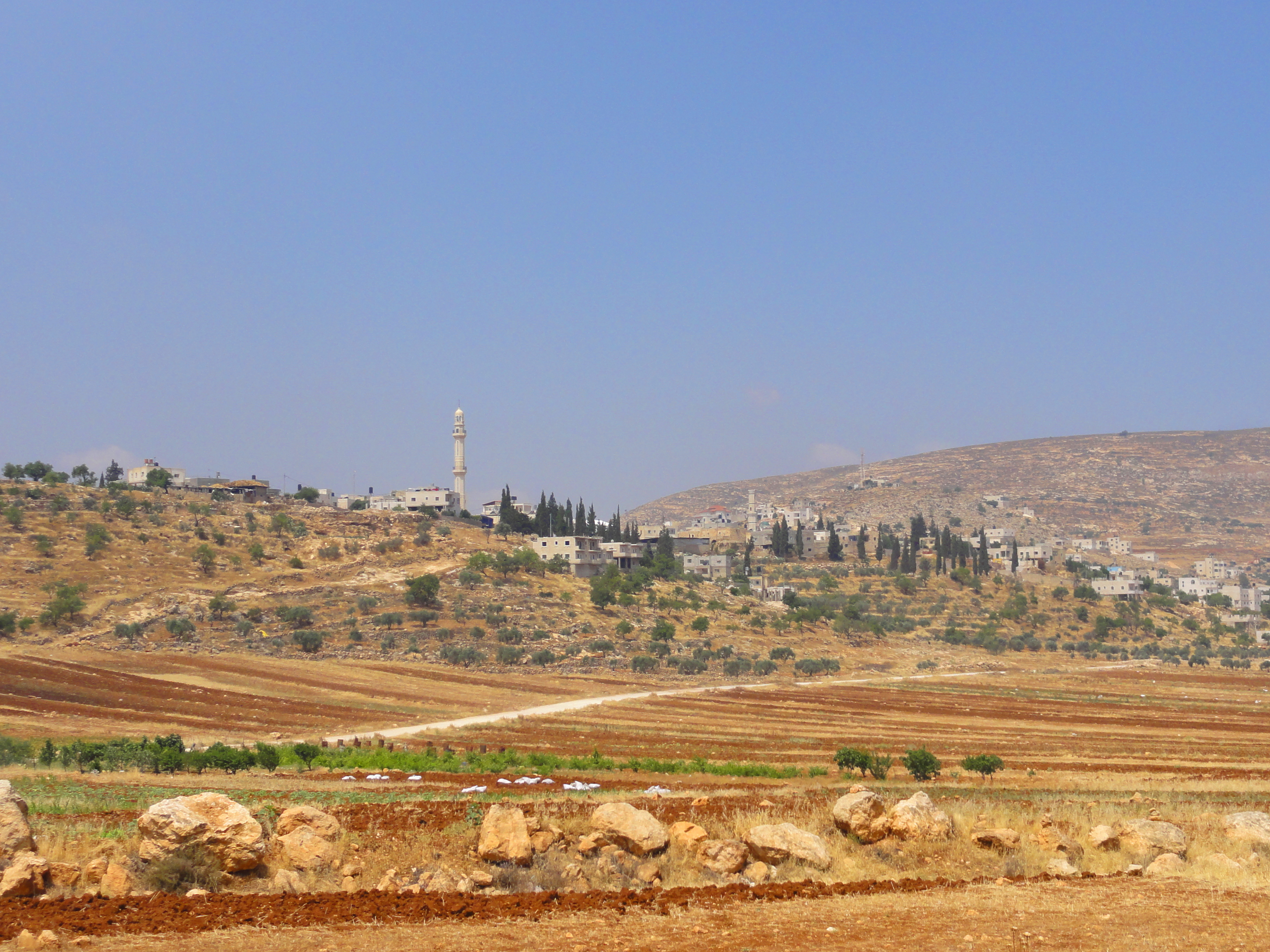 West Bank, Mughayir